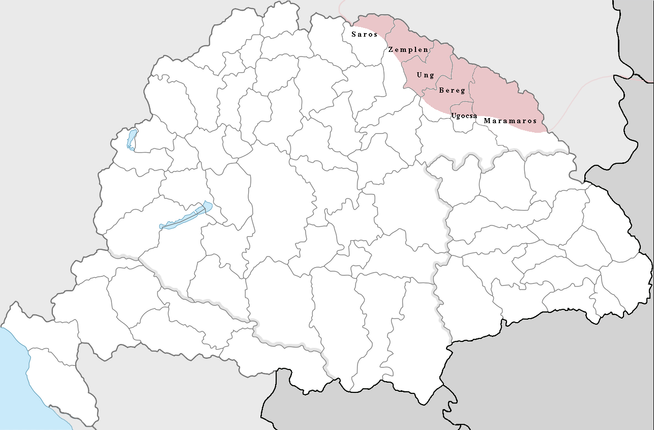 Pink : Ruthenian (Ukrainian) lands in Hungary (Austria-Hungary, until 1918)